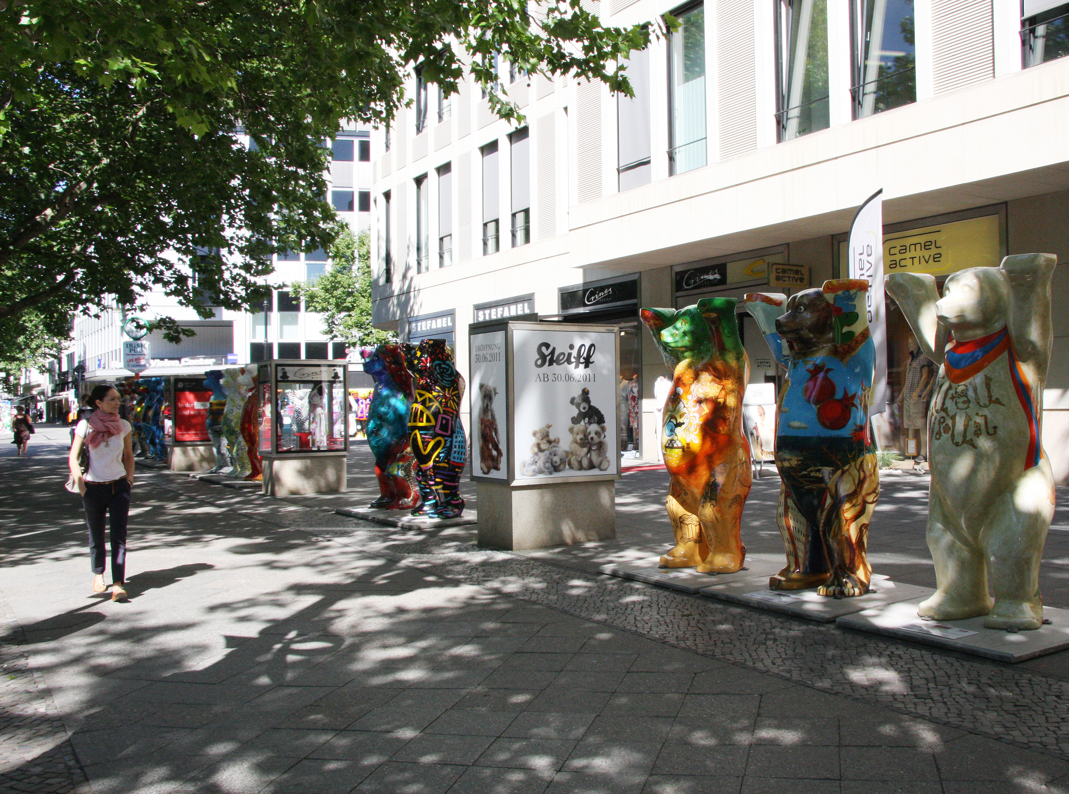 United Buddy Bears in Berlin